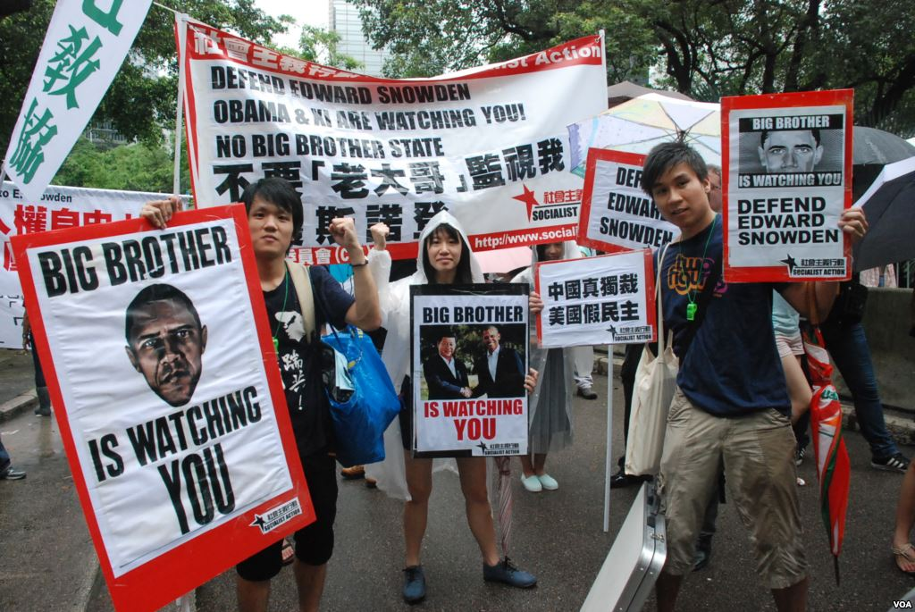 June 15, 2013: Protesters rally in Hong Kong to support Edward Snowden